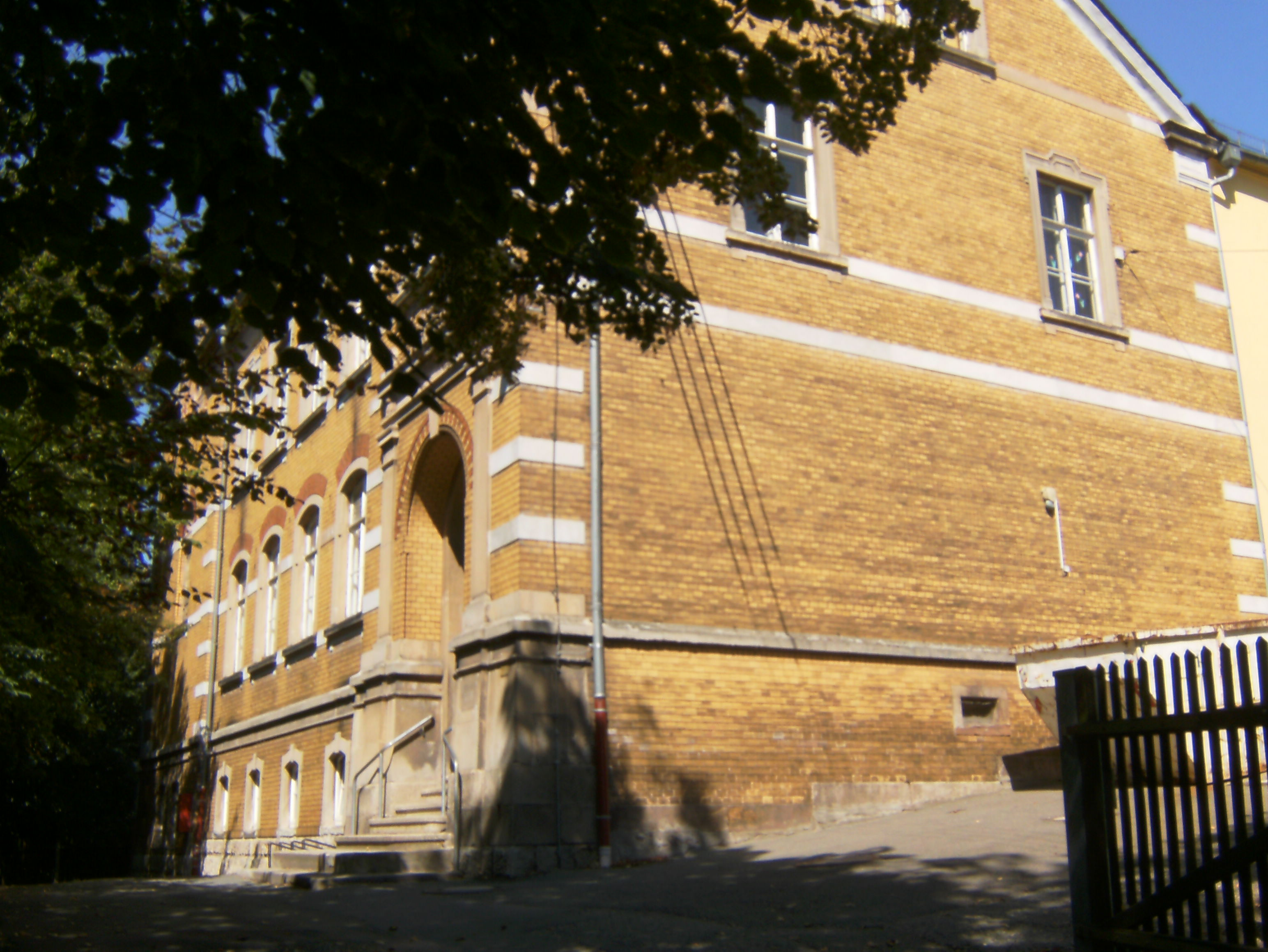 Liebschwitz, former elementary school "Waldschule" (Forest School).